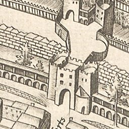 Arnold Mercator - Hahnentor (Mercatorplan 1570)